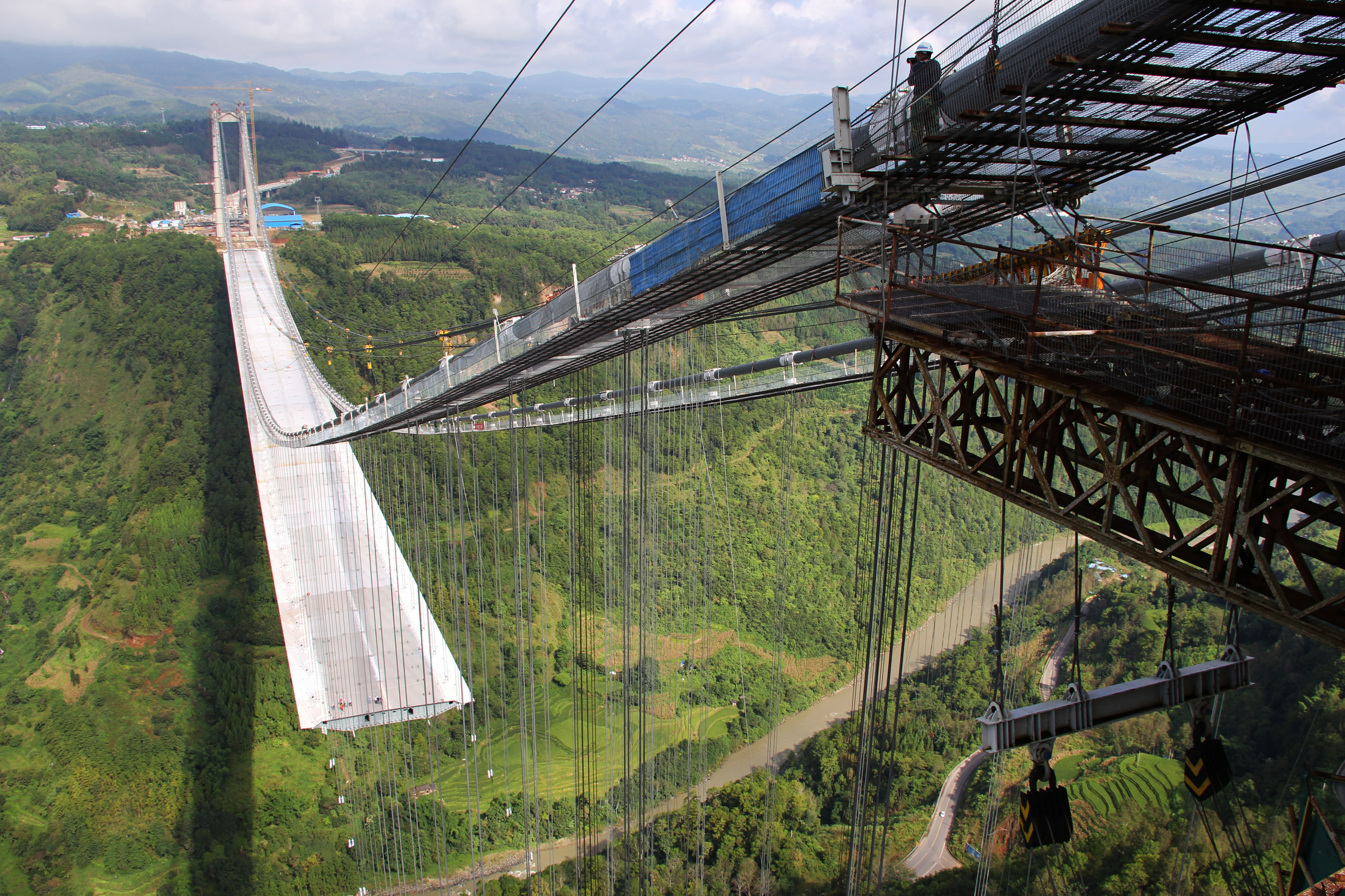 Longjiang Bridge construction view from east tower.